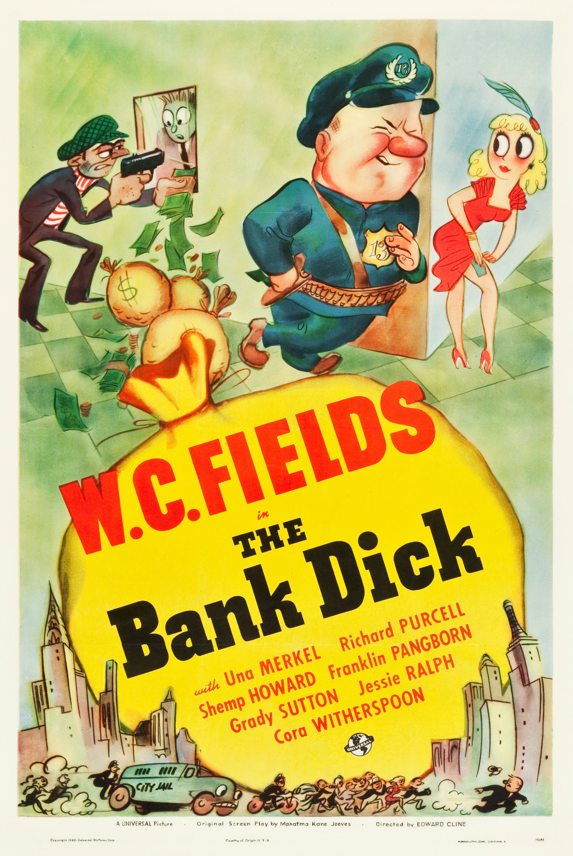 "Style D" theatrical poster for the American release of the 1940 film The Bank Dick.